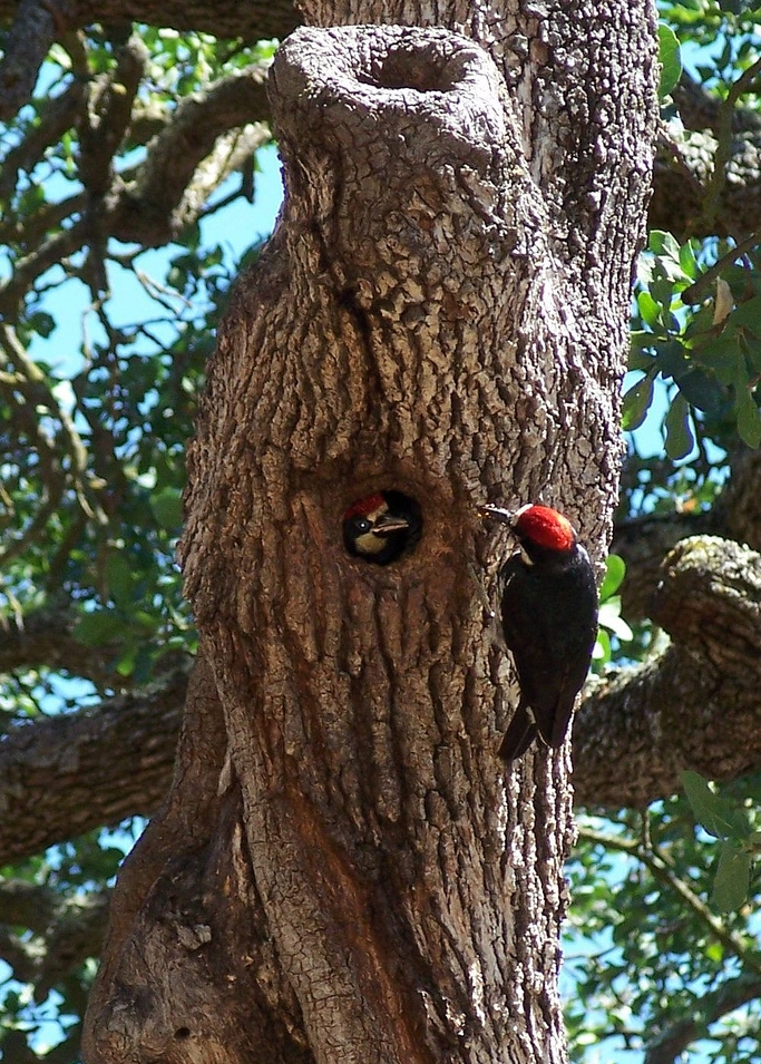 Male Acorn Woodpecker feeds nestling